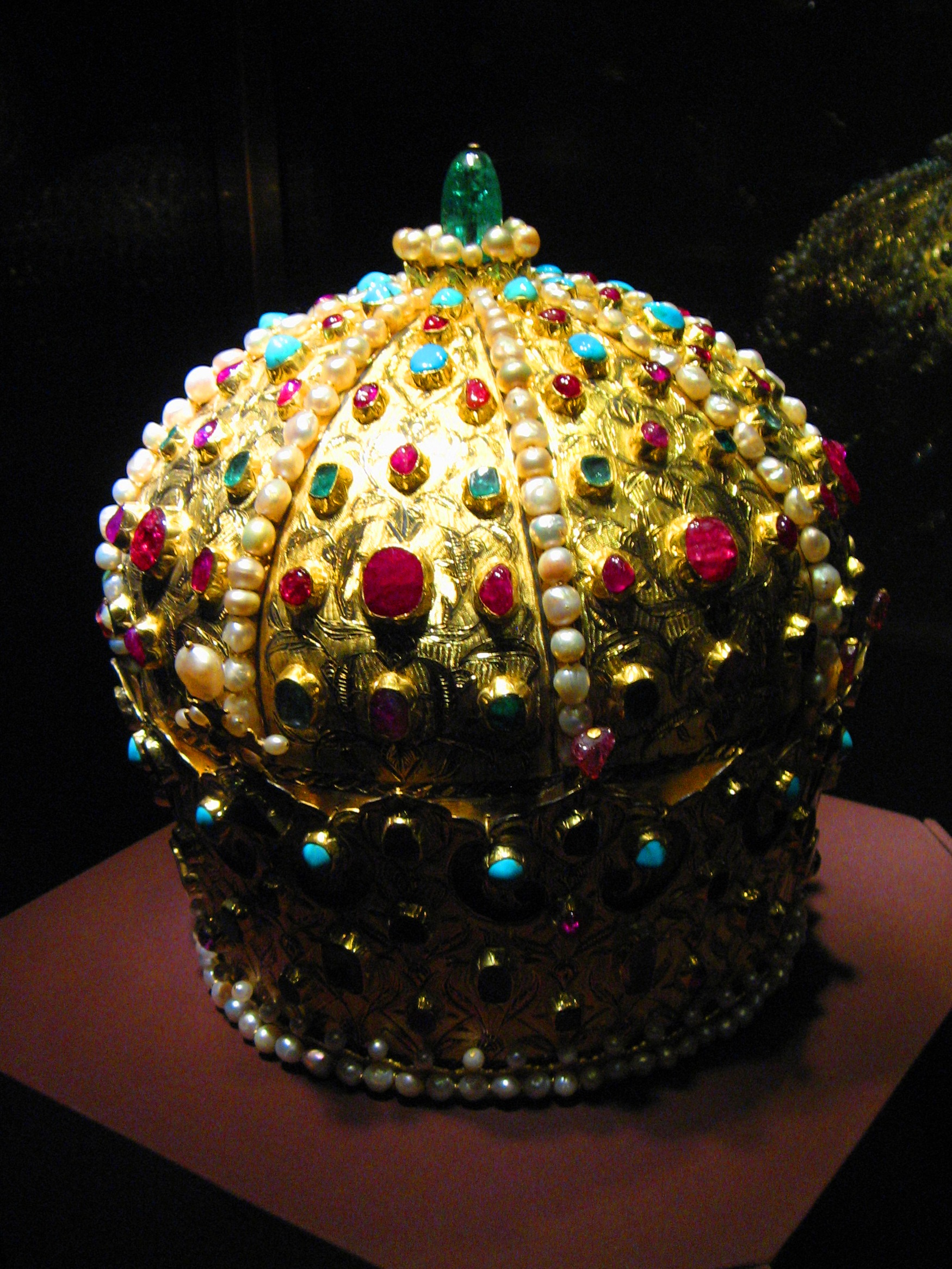 View from the right of the Crown of István Bocskay Persian c. 1600 Gold, rubies, spinels, emeralds, turquoises, pearls, silk H 23.2 cm, Diam. 18.8 cm-22 cm SK Inv. No. XIV 25